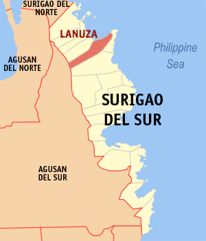 Map of the Surigao del Sur showing the location of Lanuza